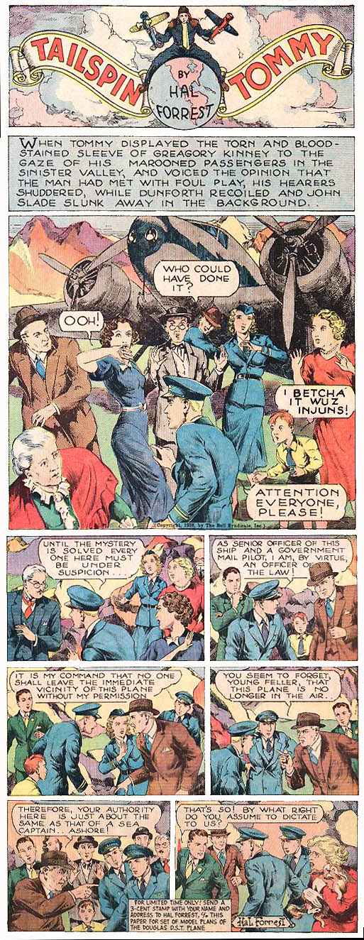 Tailspin Tommy comic strip from June 26, 1938 Note that the display of the two strips differ, likely due to the format of the respective newspaper who published them, but the panels are all identical. A search for renewal was done in both contributions to publications and artwork for the years 1965 and 1966. There were no listings for Bell Syndicate or Hal Forrest. There's no evidence this remains in copyright.